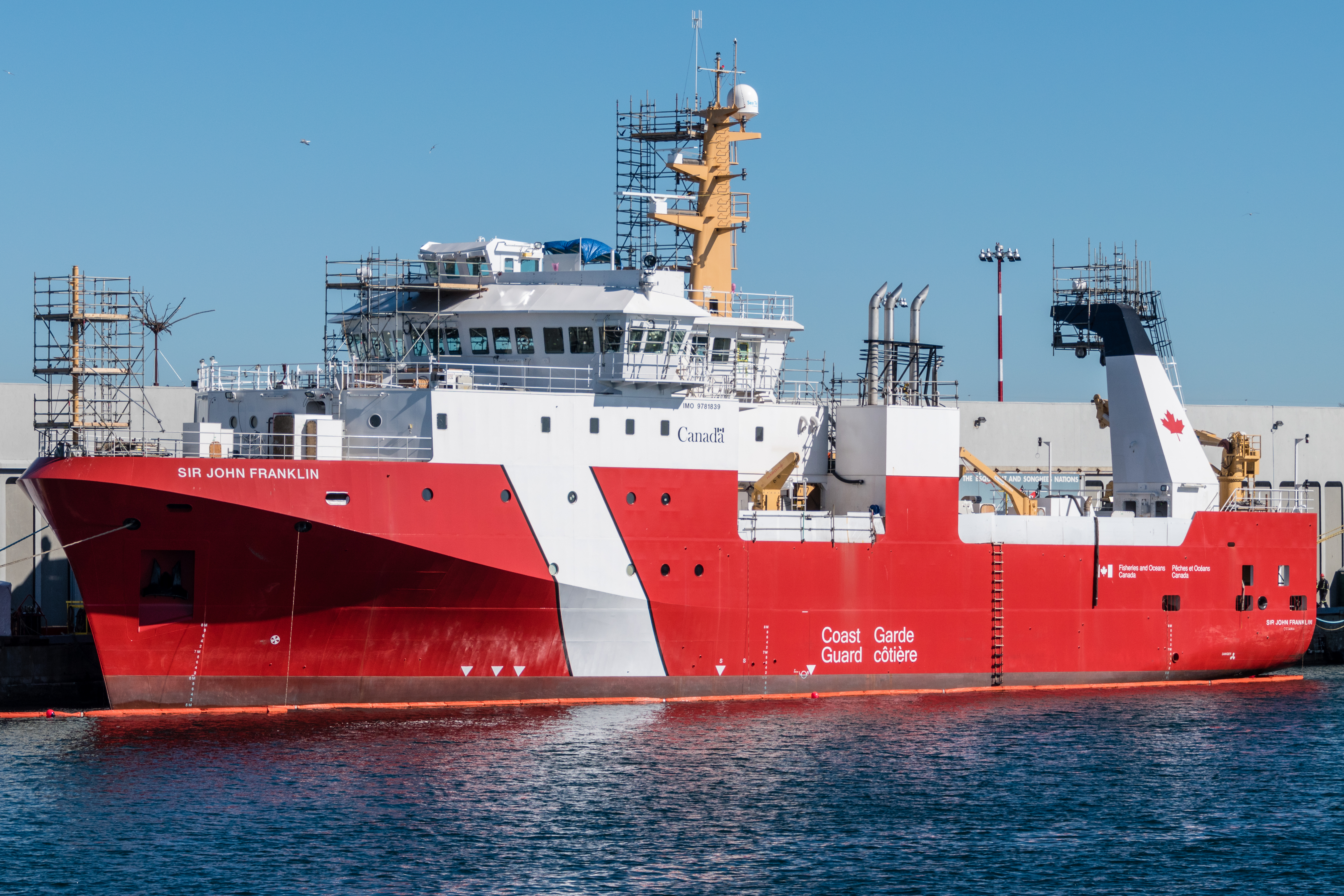 CCGS Sir John Franklin docked at Ogden Point in Victoria, BC, Canada while undergoing sea trials.